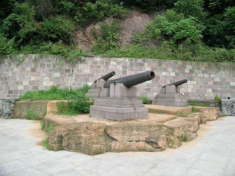 中法战争镇海之役胜利纪念碑前的火炮。The cannon is in front of the monument of victory in the war of Zhenhai (Sino-French War).